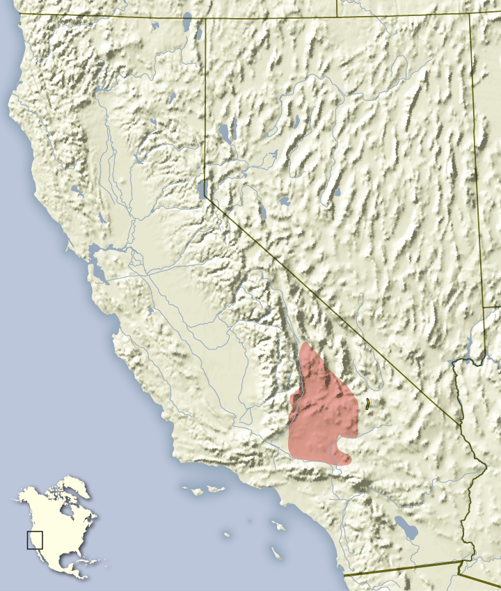 Distribution map of the Mohave ground squirrel; red: extant; yellow with black outline: possibly extinct